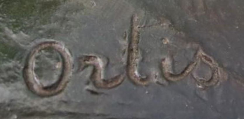 Signature of Jean Ortis